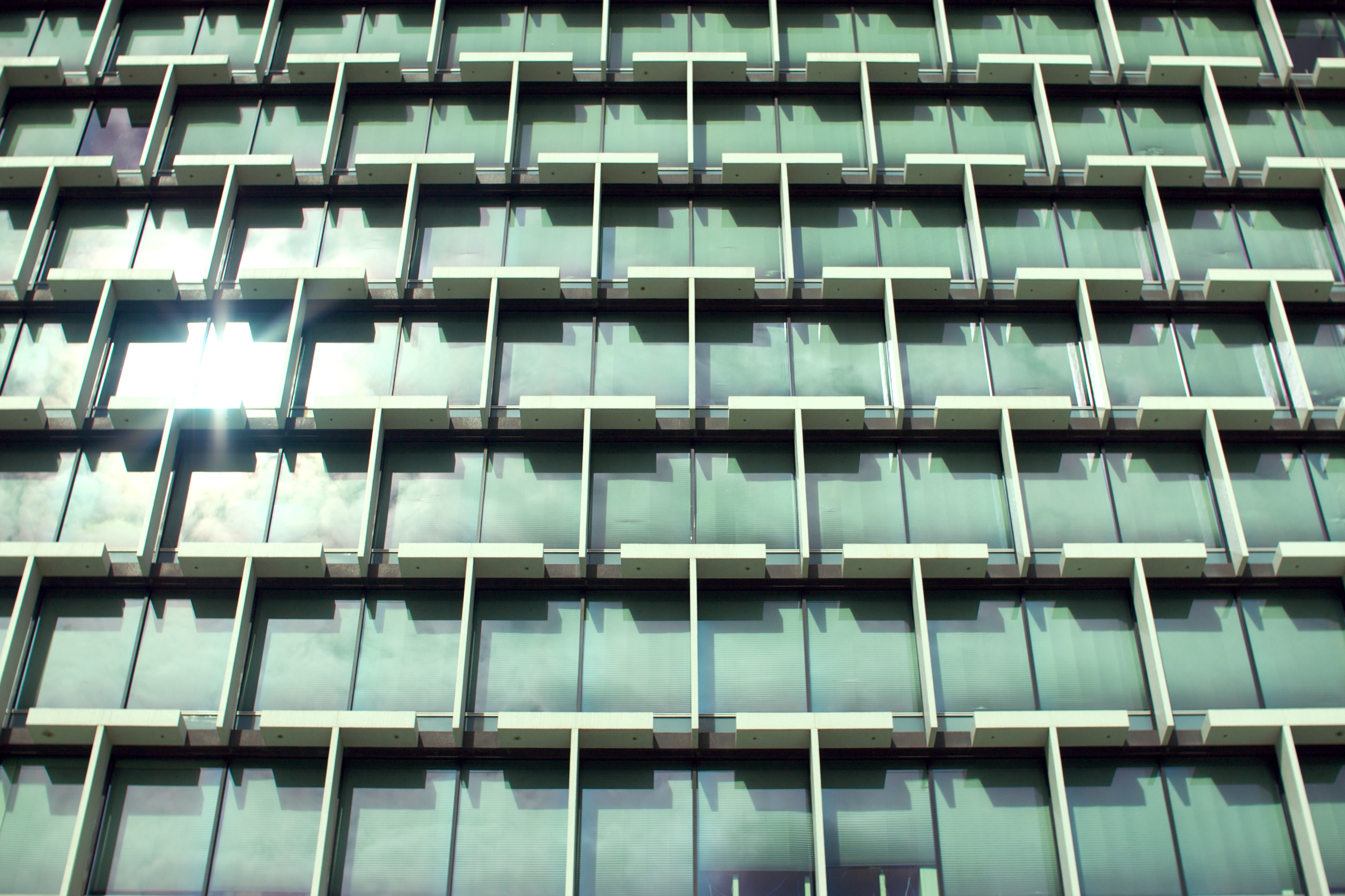 The facade of Council House in Perth, Western Australia.